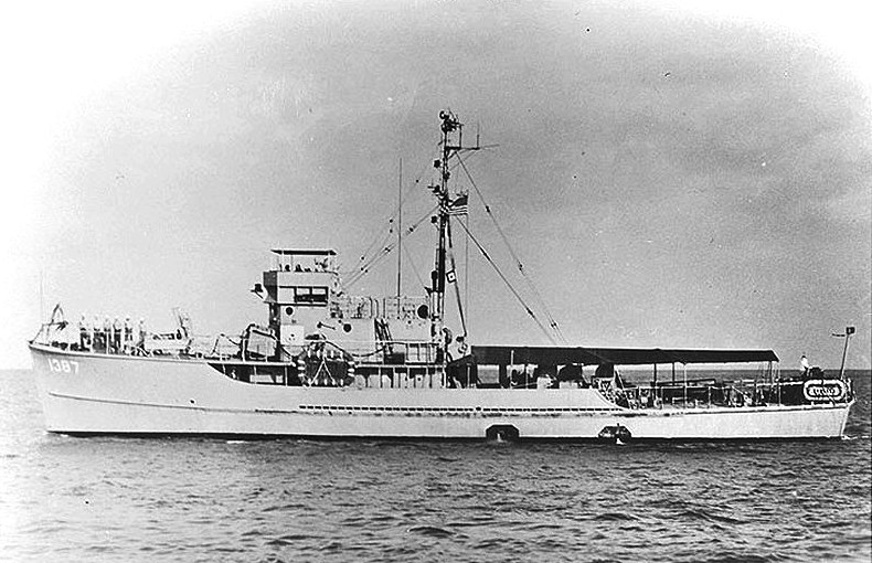 Photo #: NH 85019 USS PCS-1387 Photographed circa the later 1940s. This ship was renamed Beaufort (PCS-1387) in February 1956. Courtesy of Donald M. McPherson, 1976. U.S. Naval Historical Center Photograph.